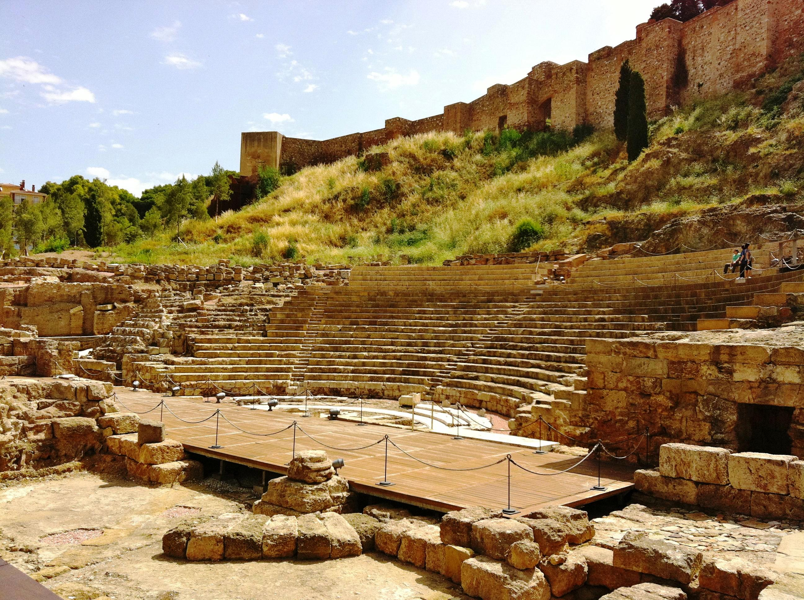 Roman theater of Malaga.